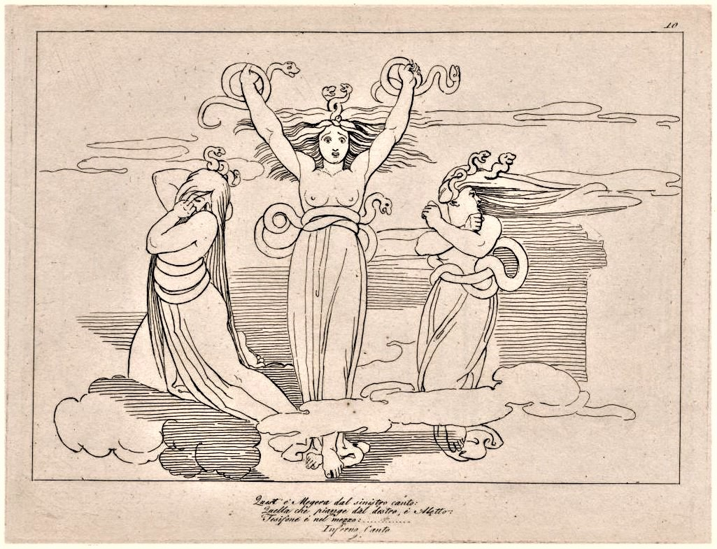 Engraving: questa e megera dal sinistro canto from Divina Commedia by Dante - illustration designed by John Flaxman, engraved by Tommaso Piroli.